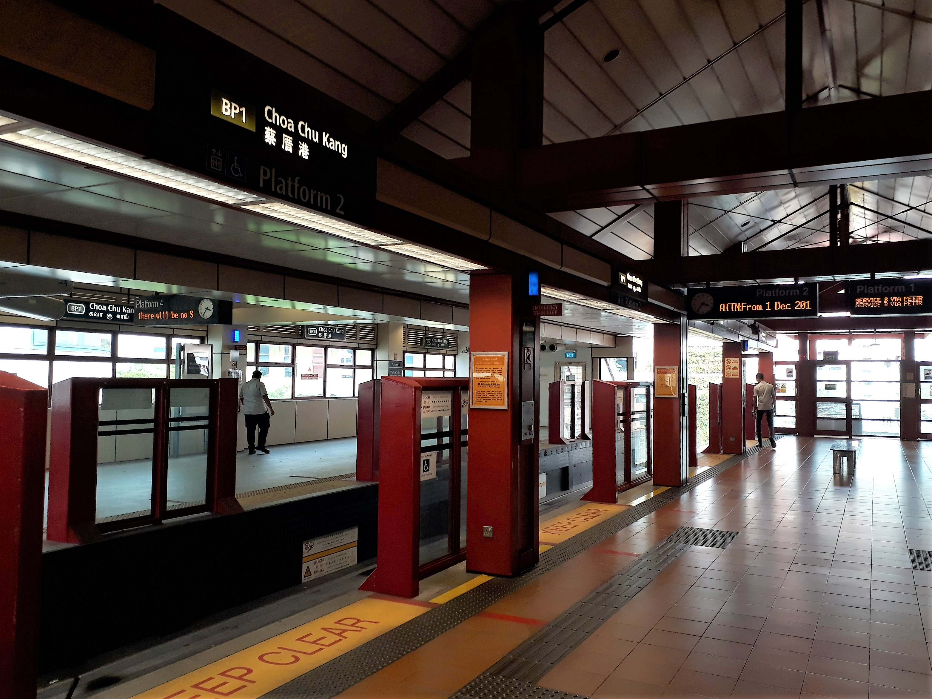 Platform 2 of Choa Chu Kang's LRT Platform